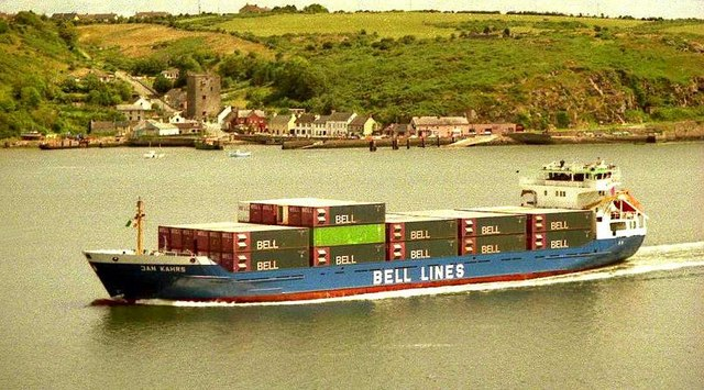 A ship on the Suir The container ship “Jan Kahrs” inbound to Waterford, in the River Suir near Passage East. Both sides of the Suir here have steep banks creating a fjord-like appearance.